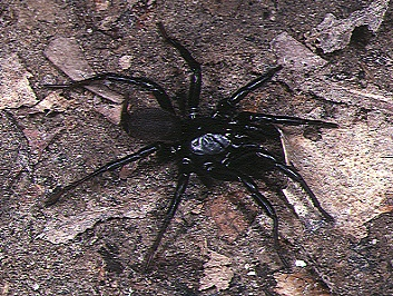 male Macrothele gigas from Okinawa.